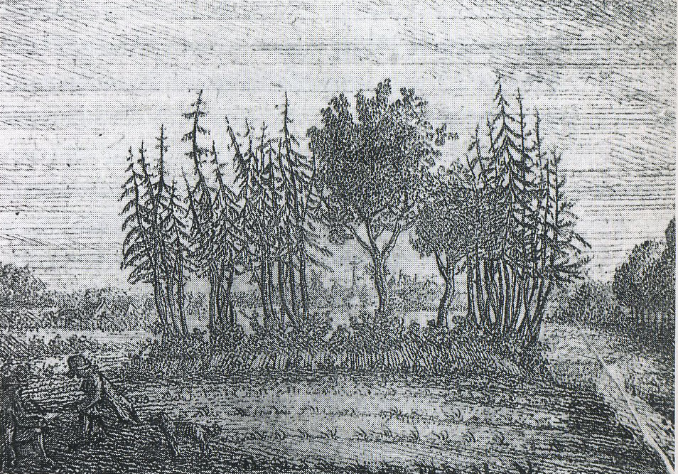 Upstalsboom, former thing or ting. Done 1790 by Conrad Bernhard Meyer